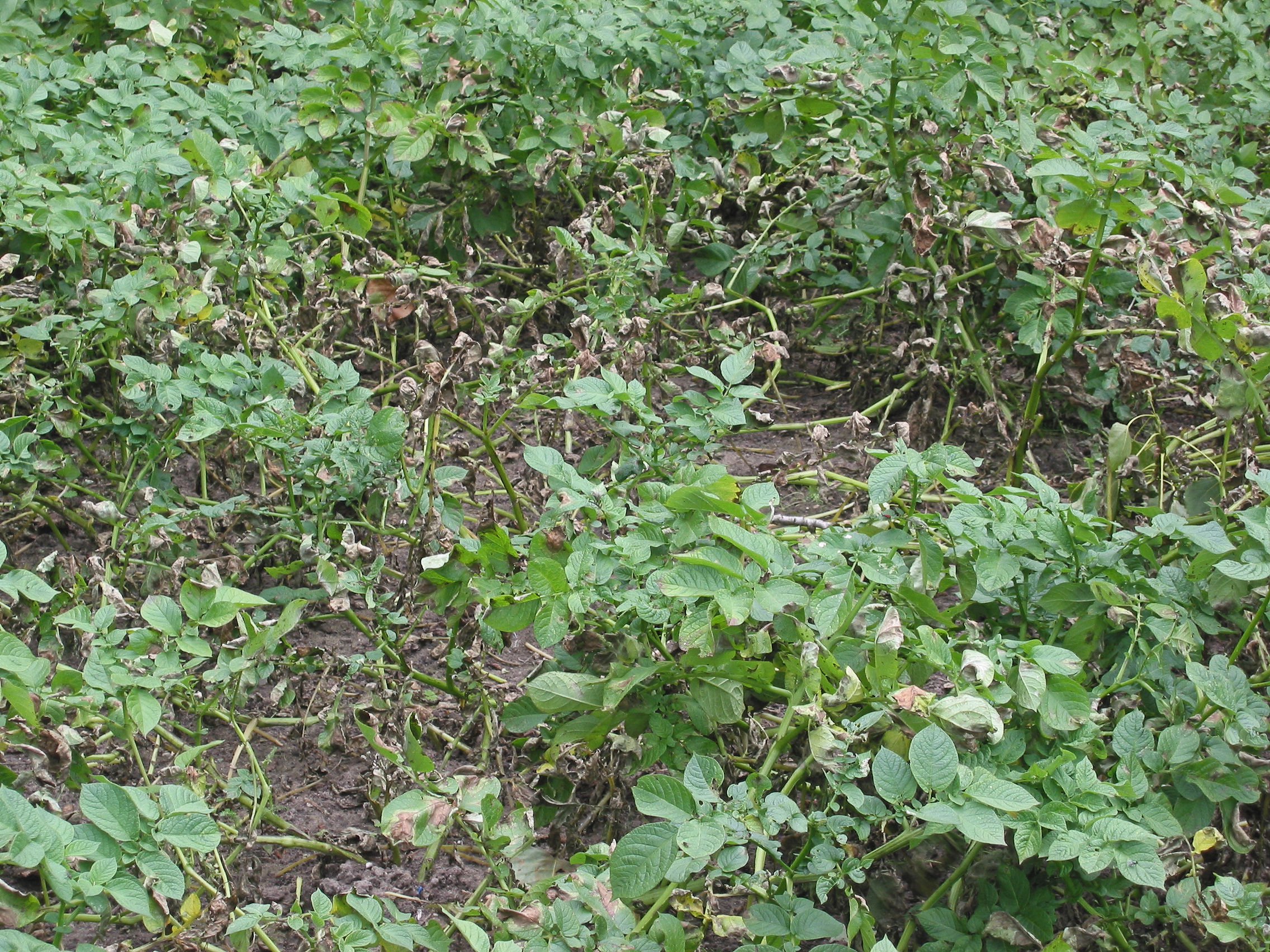 Phytophthora infestans bij Parel